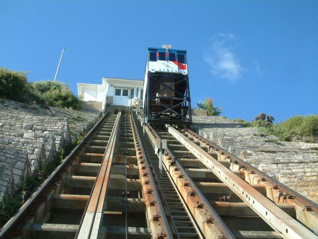 The West Cliff Railway at Bournemouth, Dorset, England. For more information see the Wikipedia article West Cliff Railway .